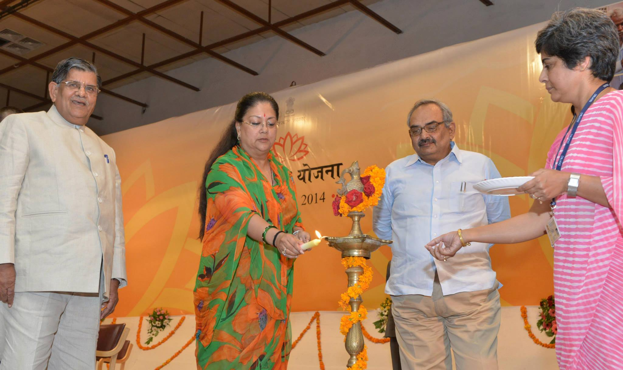 Bhamashah Yojana Inaugration by Chief Minister of Rajasthan Vasundhara Raje Scindia